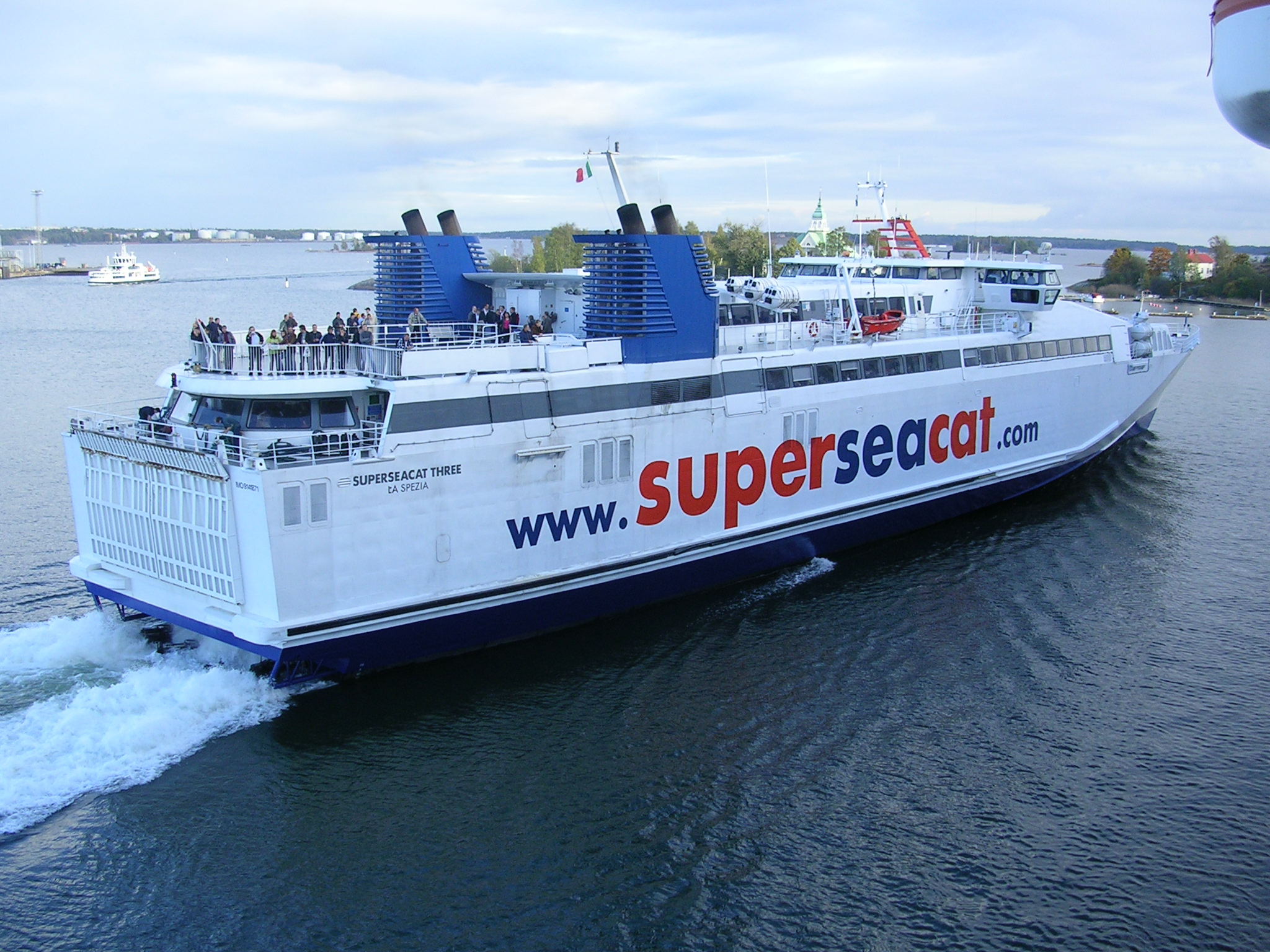 HSC SuperSeaCat three departing Helsinki, 5th October 2006. Picture taken by Kalle Id.